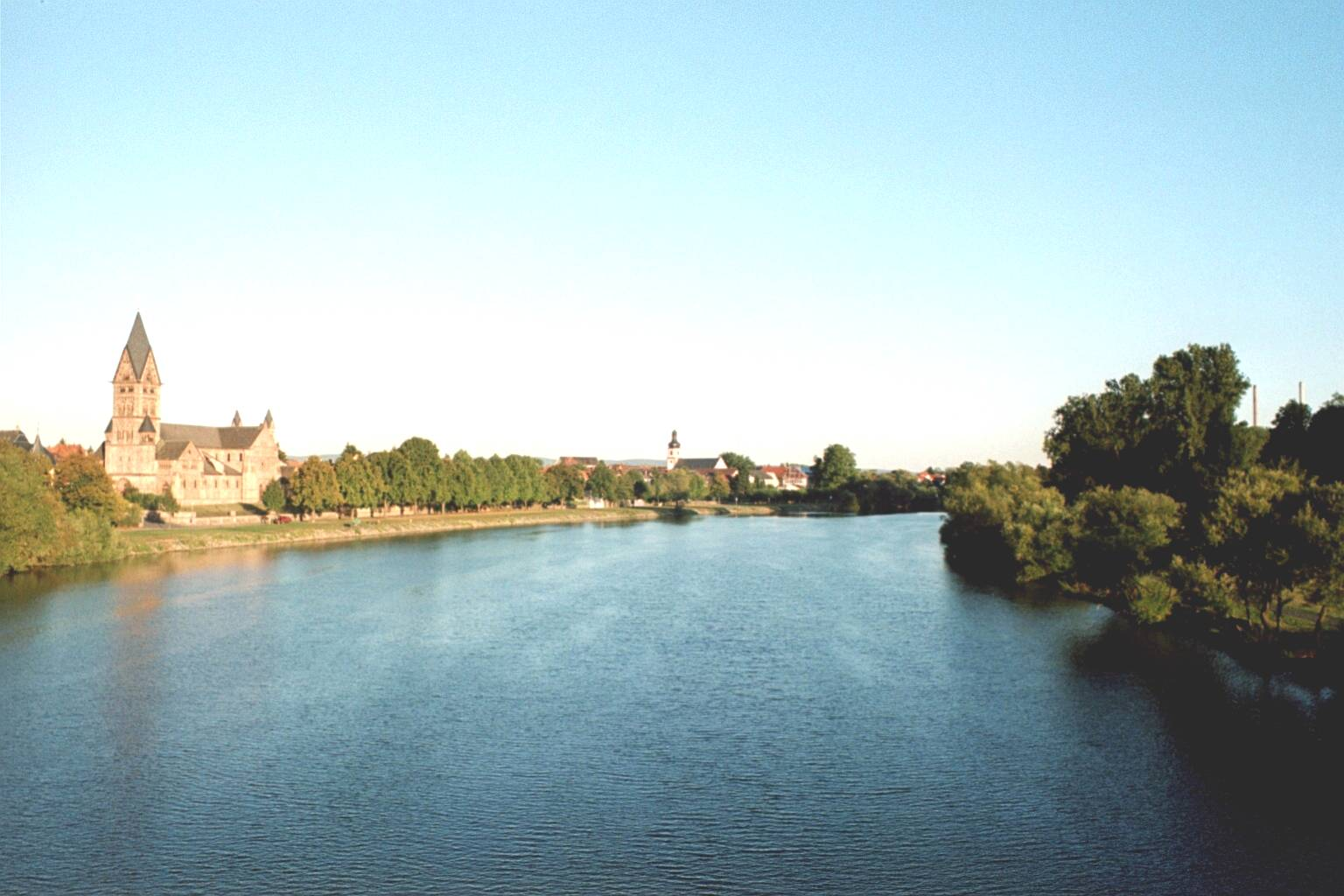 Hanau-Grossauheim, Main-River, view from Old Bridge